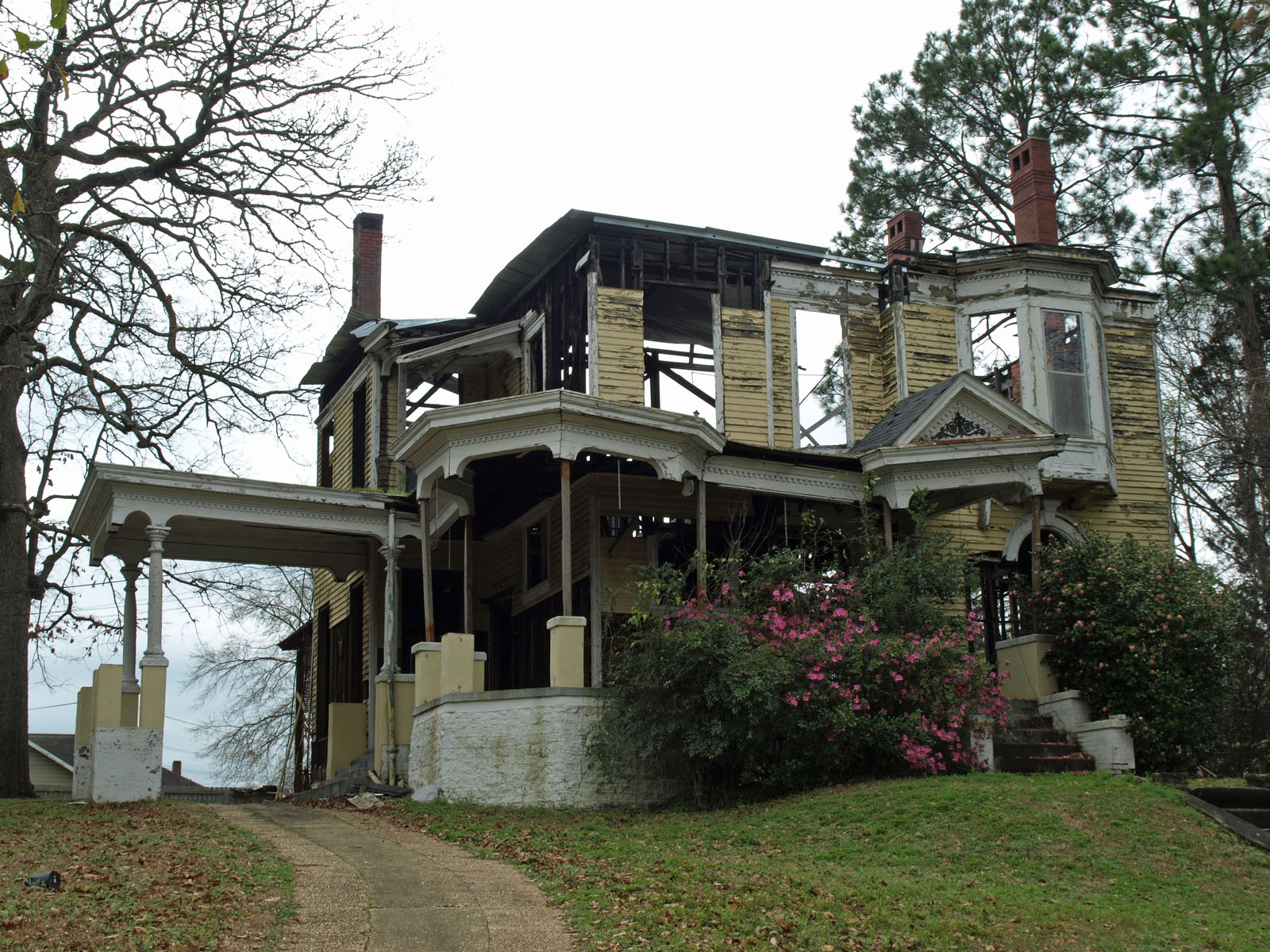 The Gay House in Montgomery, Alabama, after a 2007 fire and 2011 partial deconstruction.